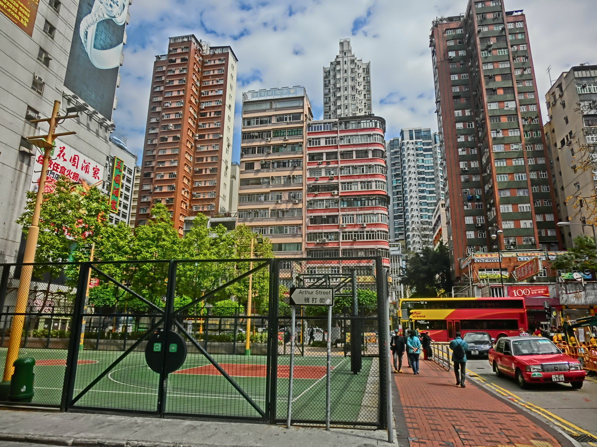 Nathan Road, Yau Ma Tei, Hong Kong